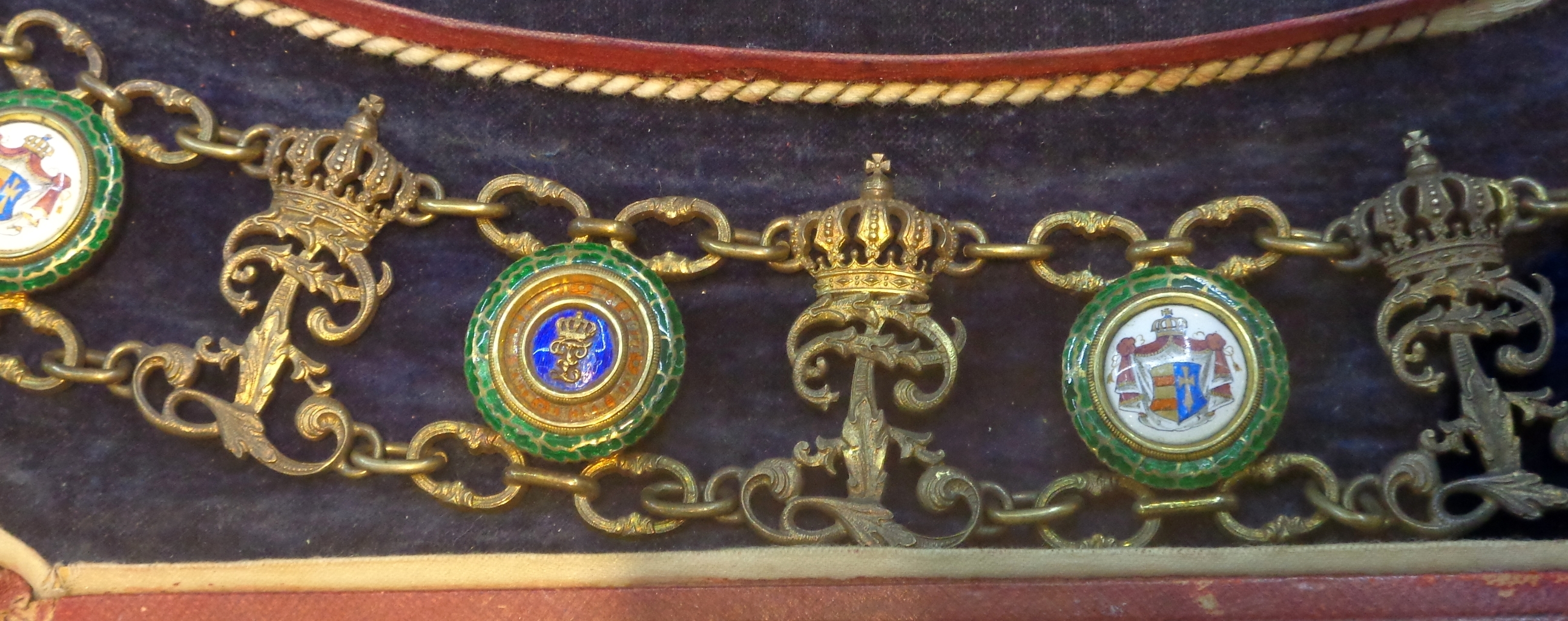 House and Merit Order of Peter Frederick Louis, collar of Grand Cross, 1863-1865. Grand Duchy of Oldenburg. The exhibition of the Tallinn Museum of Orders of Knighthood, Estonia.